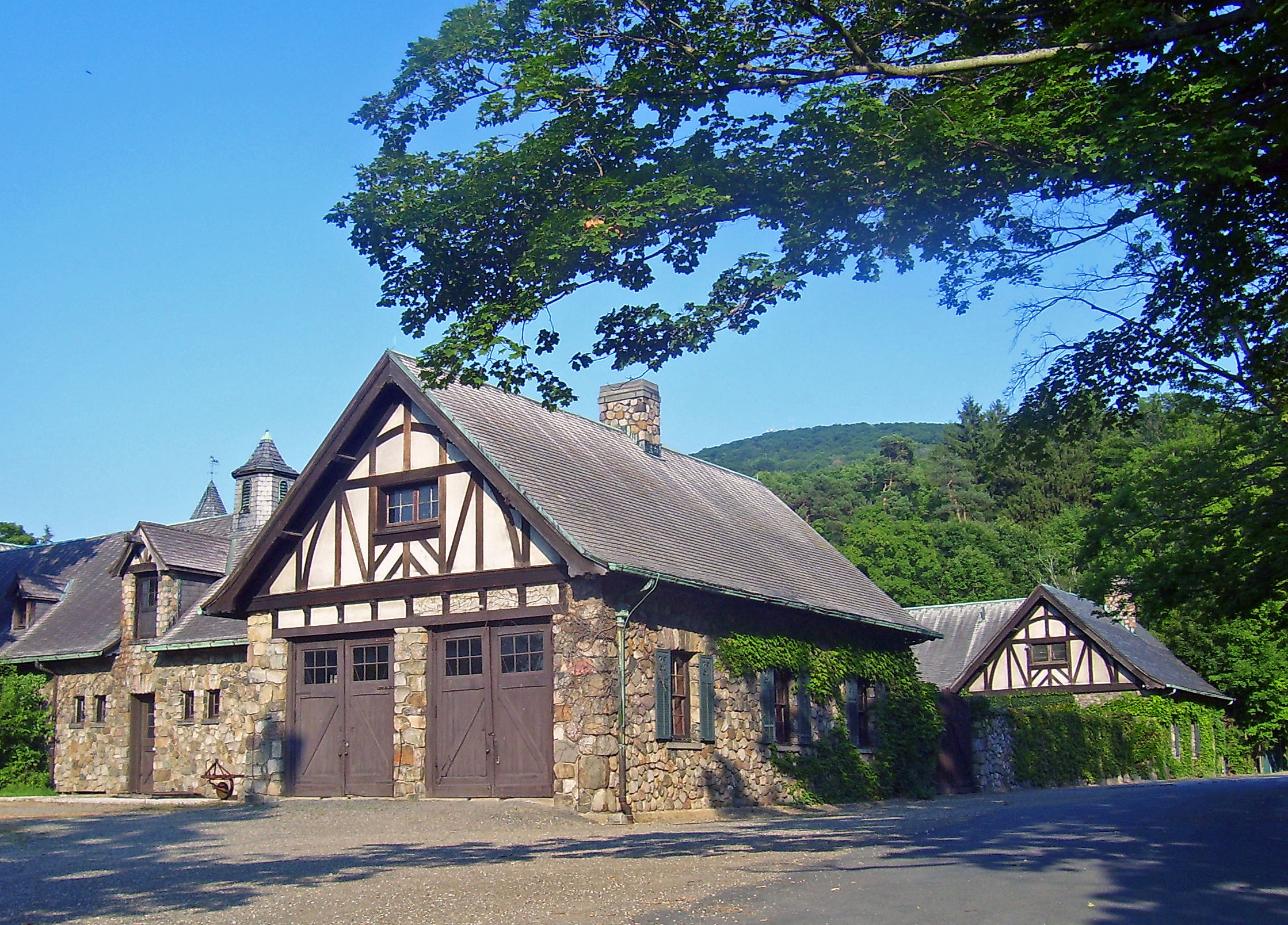 Gatehouse at Arden in the eponymous hamlet in New York, USA, a National Historic Landmark.